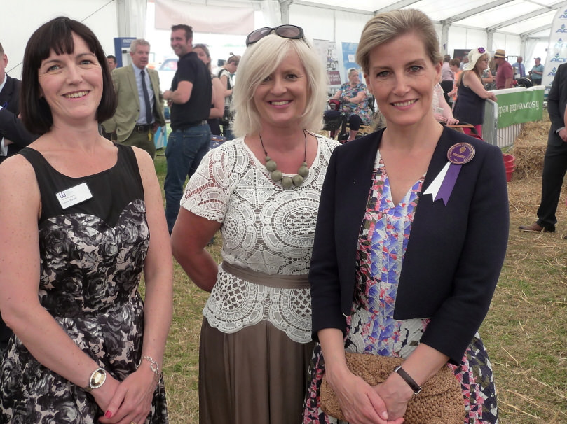 Louise Purcell, Prisca Peers and HRH the Countess of Wessex, Cheshire Show 2015